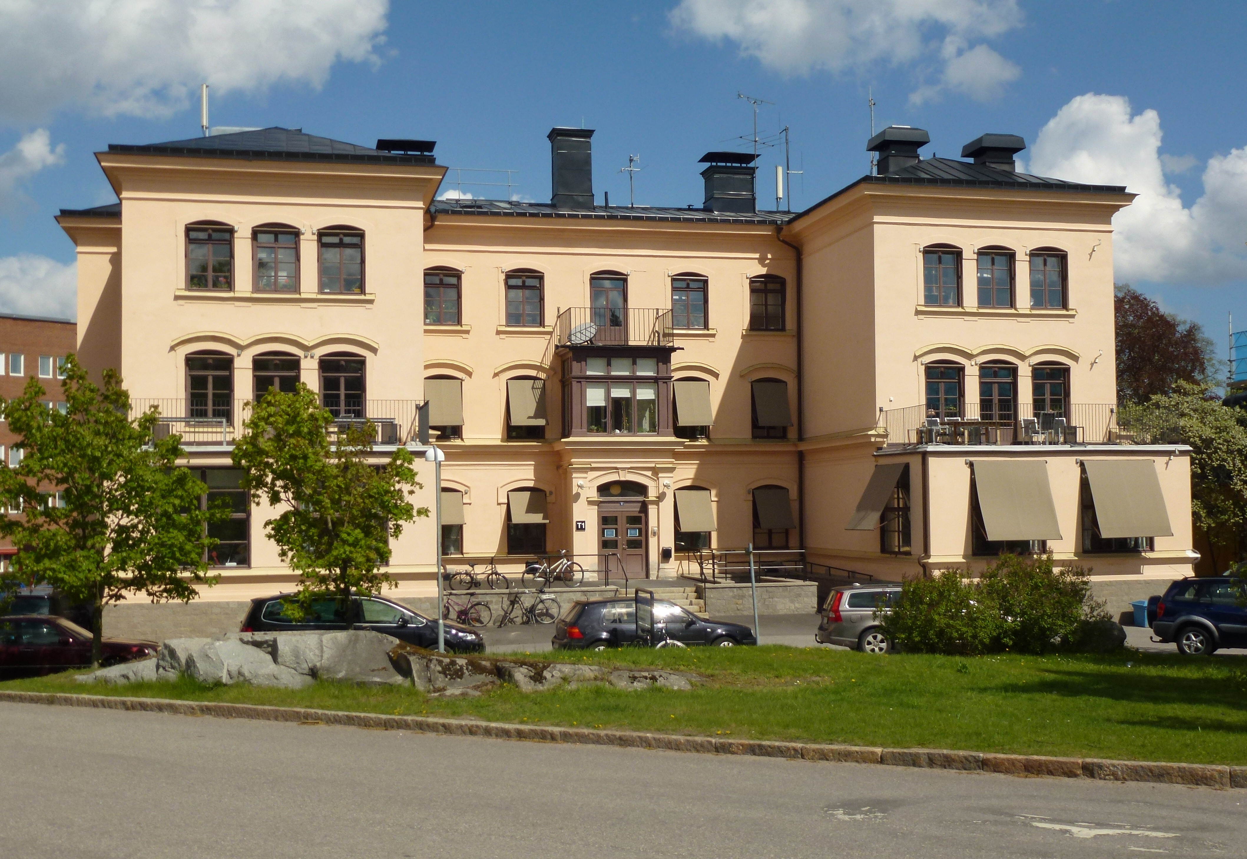 Eugeniahemmet i Solna